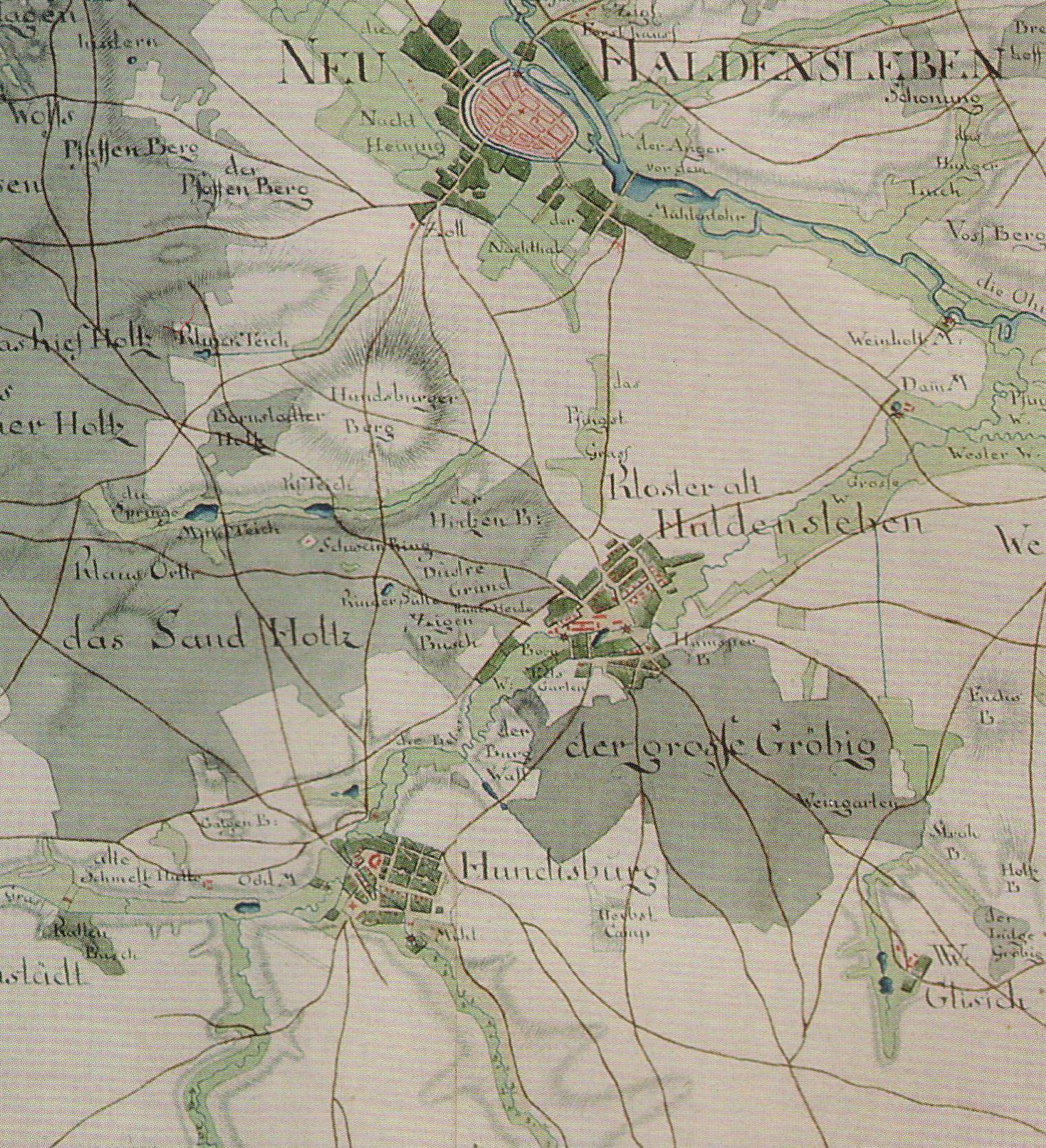 (part of) map of Haldensleben, Althaldensleben and Hundisburg area (near Magdeburg), Germany from around 1780